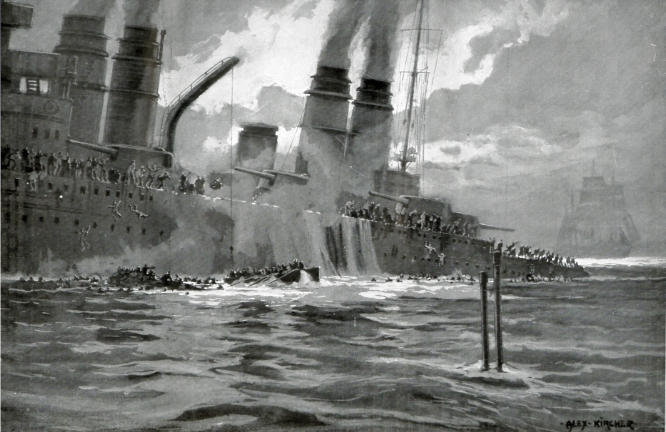 The sinking of the battleship-cruiser Léon Gambetta in 1915 saw a German postcard, after a picture of the German-Austrian painter, Alexander (Alex) Kircher.